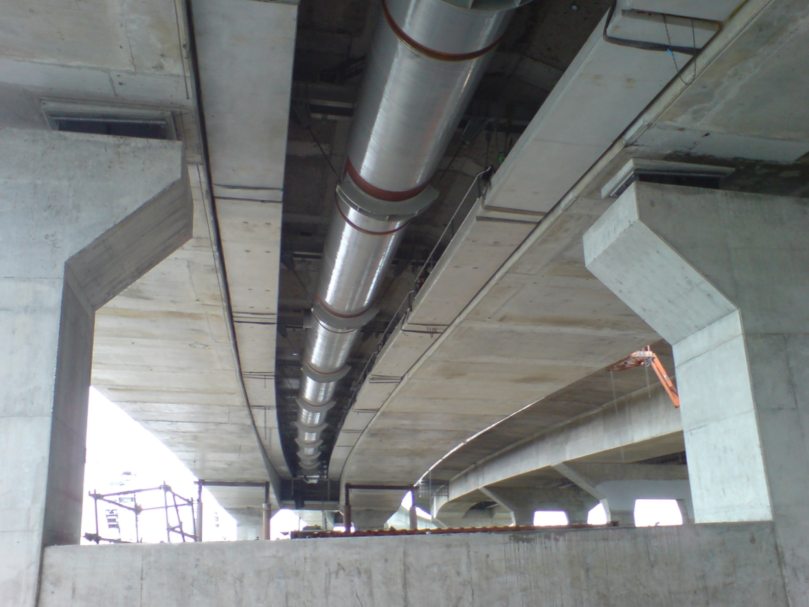 The new water pipeline incorporated underneath the duplicated Mangere Bridge in Auckland, New Zealand. Looking south.